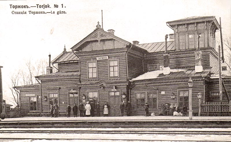 Torzhok railway station building, old photo